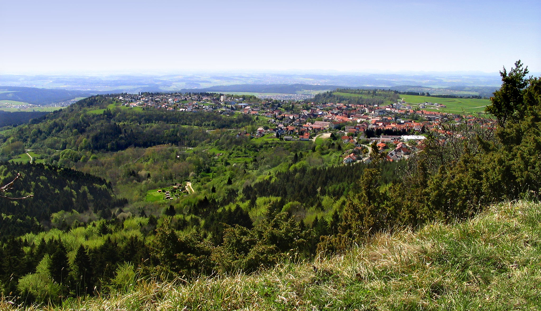 Gosheim, Germany, photographed from the Weißes Kreuz